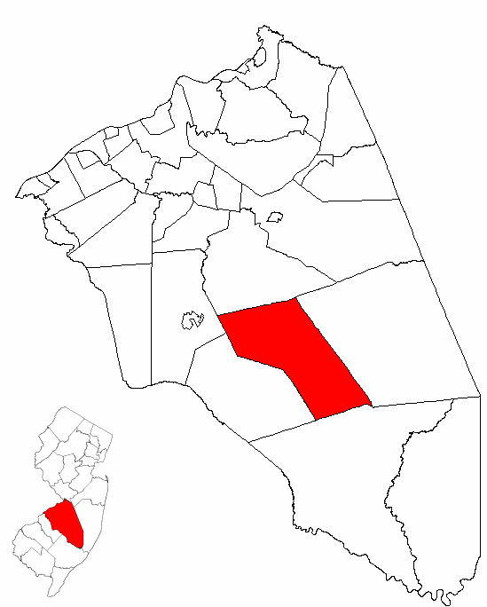 Map of Burlington County highlighting Tabernacle Township